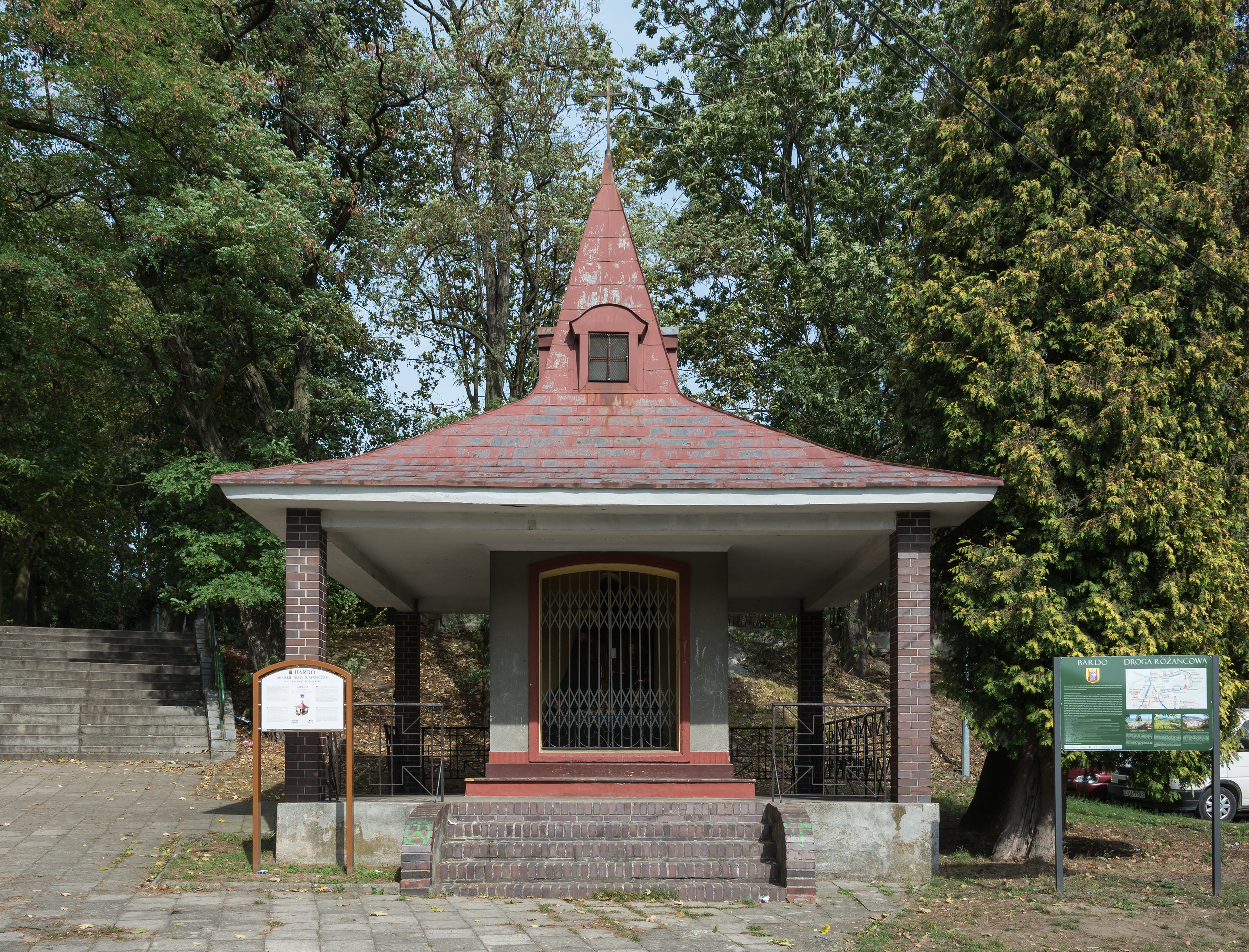 Mount Rosary chapels in Bardo, Alphonsus Liguori chapel